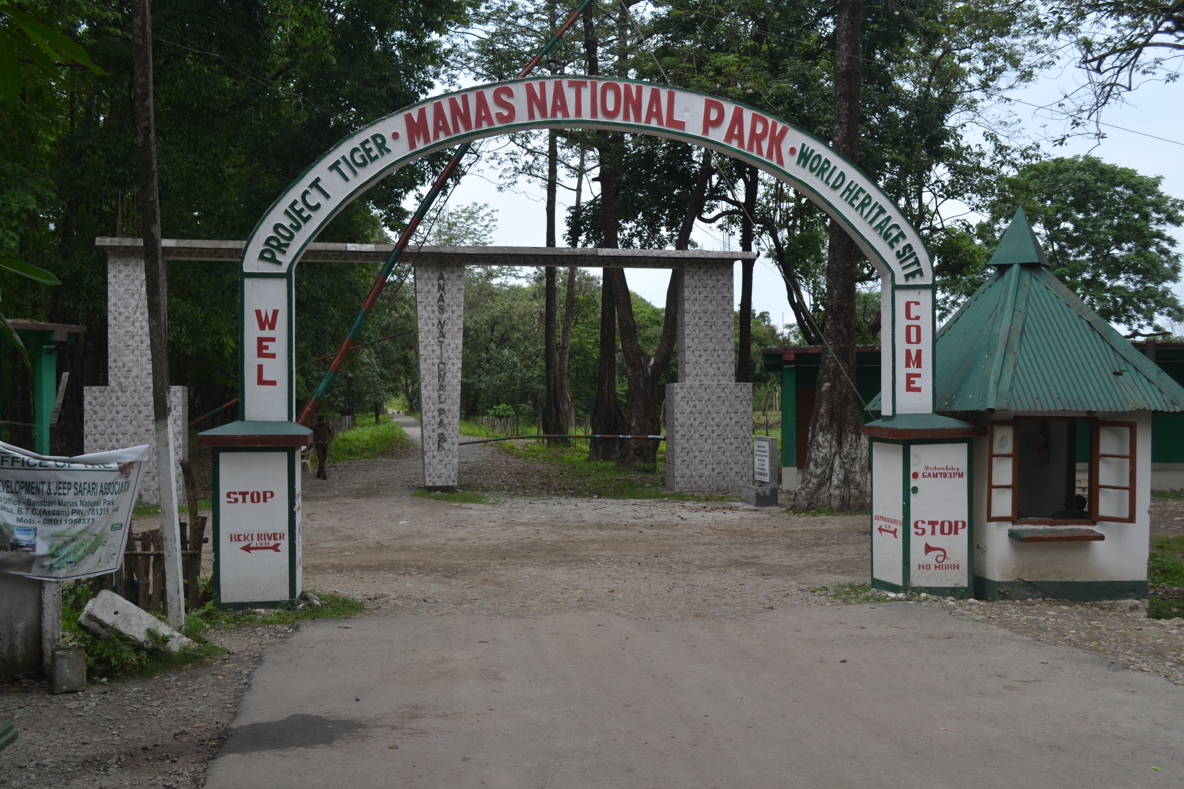 Entry gate of Manas Tiger Reserver, Assam